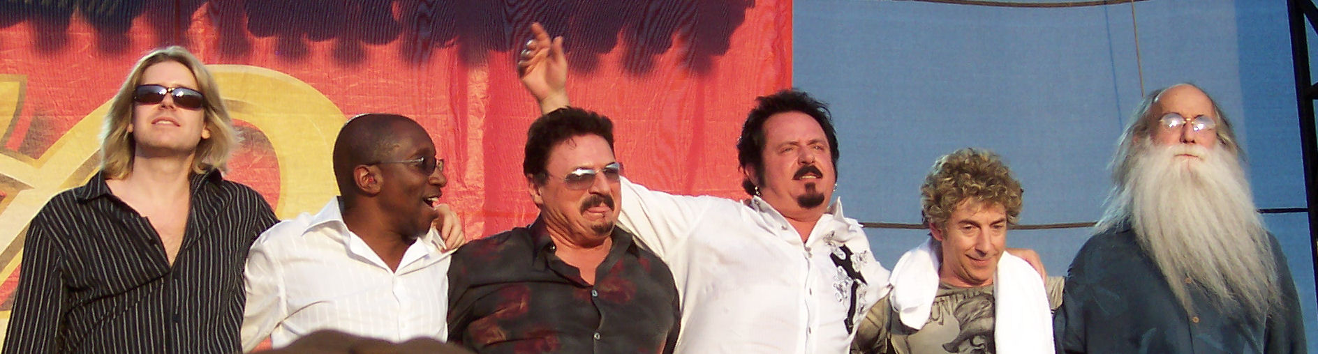 American rock band Toto photographed during their 2007 tour at the Moondance Jam concert. From left to right: Tony Spinner, Greg Phillinganes, Bobby Kimball, Steve Lukather, Simon Phillips, and Leland Sklar Photo by Matt Becker